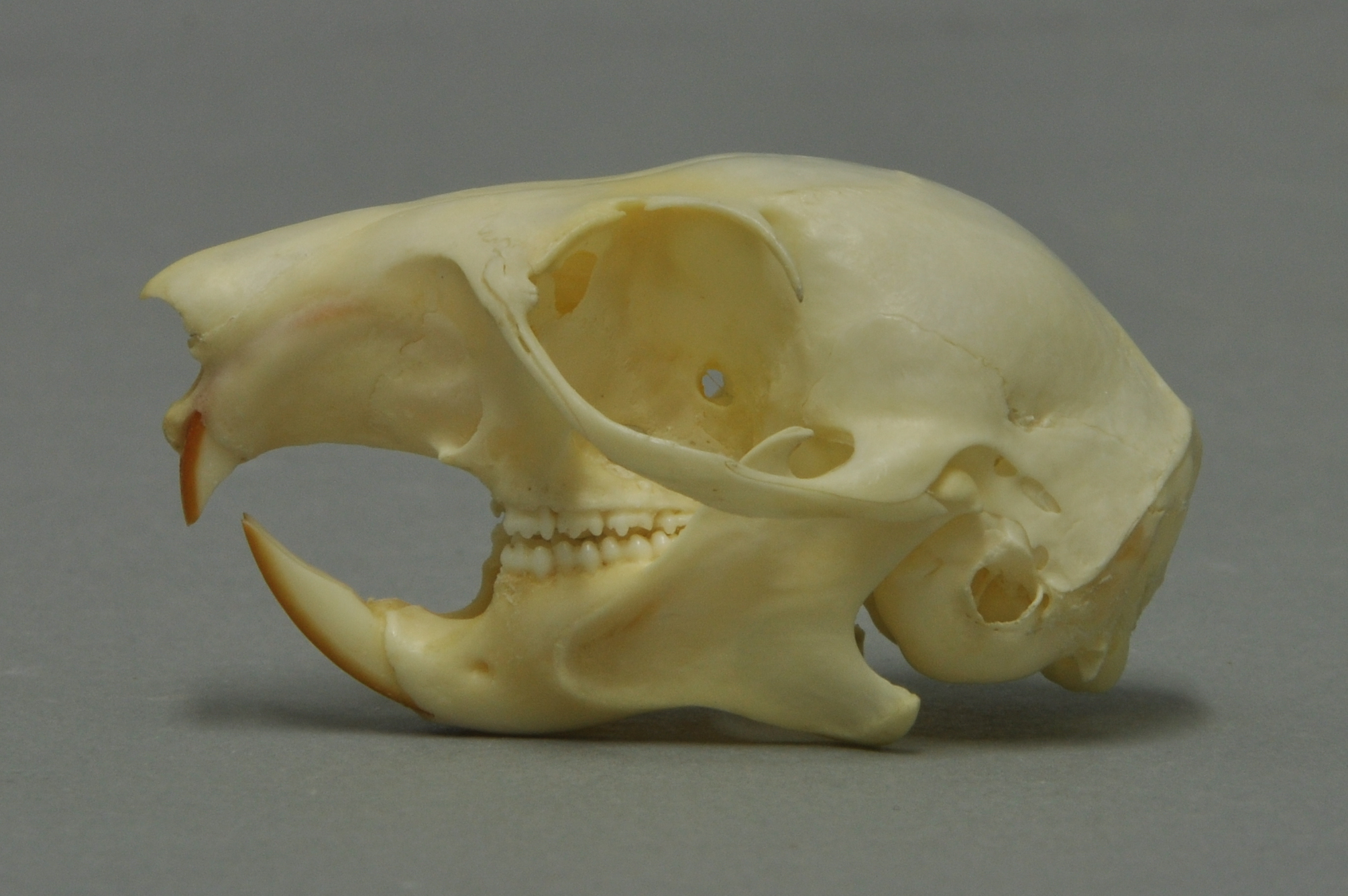 red squirrel Sciurus vulgaris , skull, Coll. Museum Wiesbaden